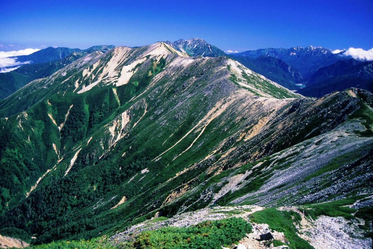 Mount_Akaushi_from_suishodake_1999-8-9